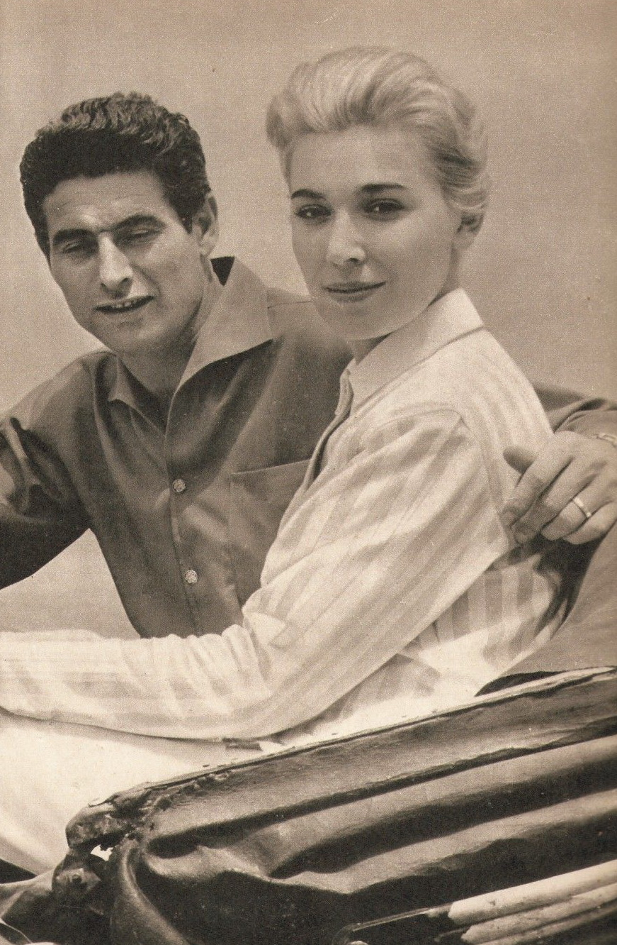 Italian footballer Lorenzo Buffon and his then wife Edy Campagnoli